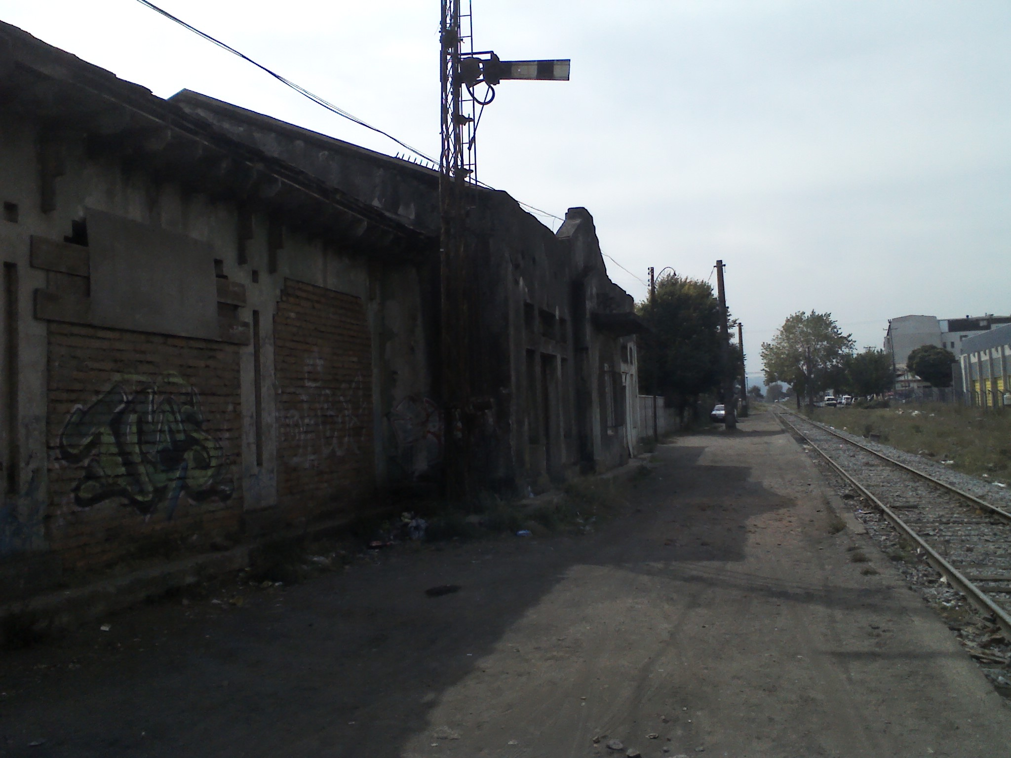 Old Railway Station of Ferrocarriles del Estado, in Concepción of Chile.